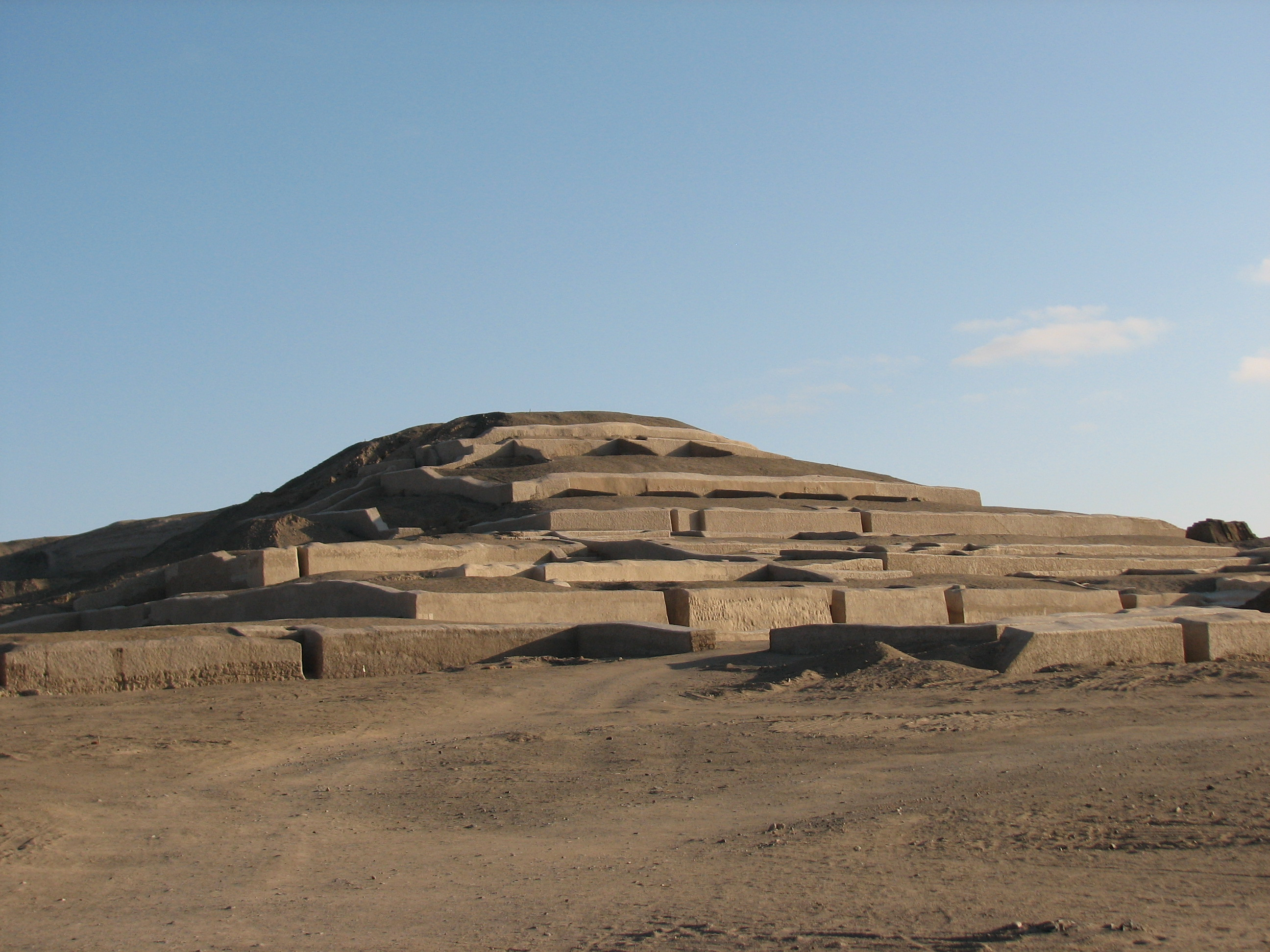 Cahuachi archaeological site in Peru